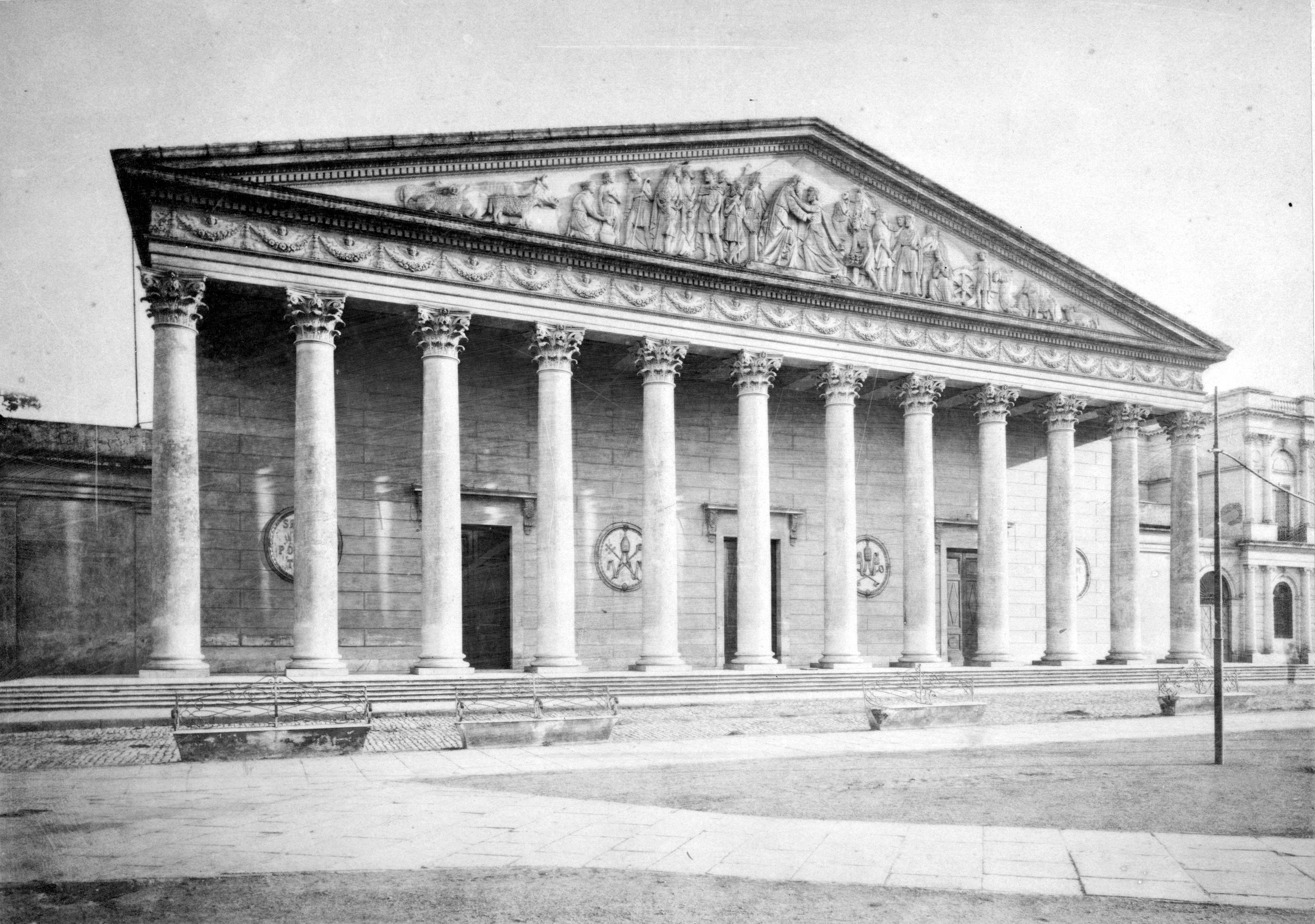 Front view of the Metropolitan Cathedral of Buenos Aires. The photo was taken from the Plaza de la Victoria (current Plaza de Mayo). On the right side of the temple can be seen part of the archidiocesis building that would be destroyed by fire in July 1955.